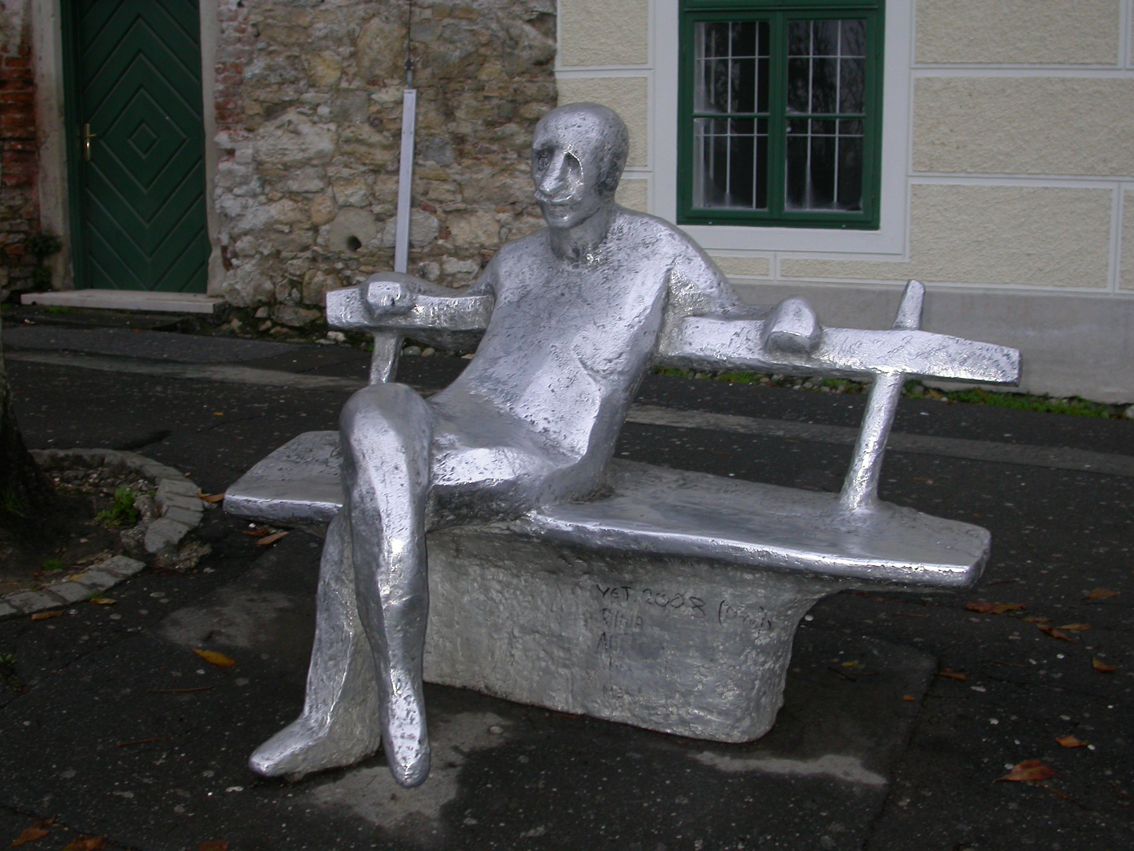 Monument to poet Antun Gustav Matoš in Zagreb